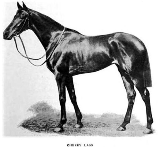 Photograph of British racehorse Cherry Lass, circa 1905. Unknown photographer.